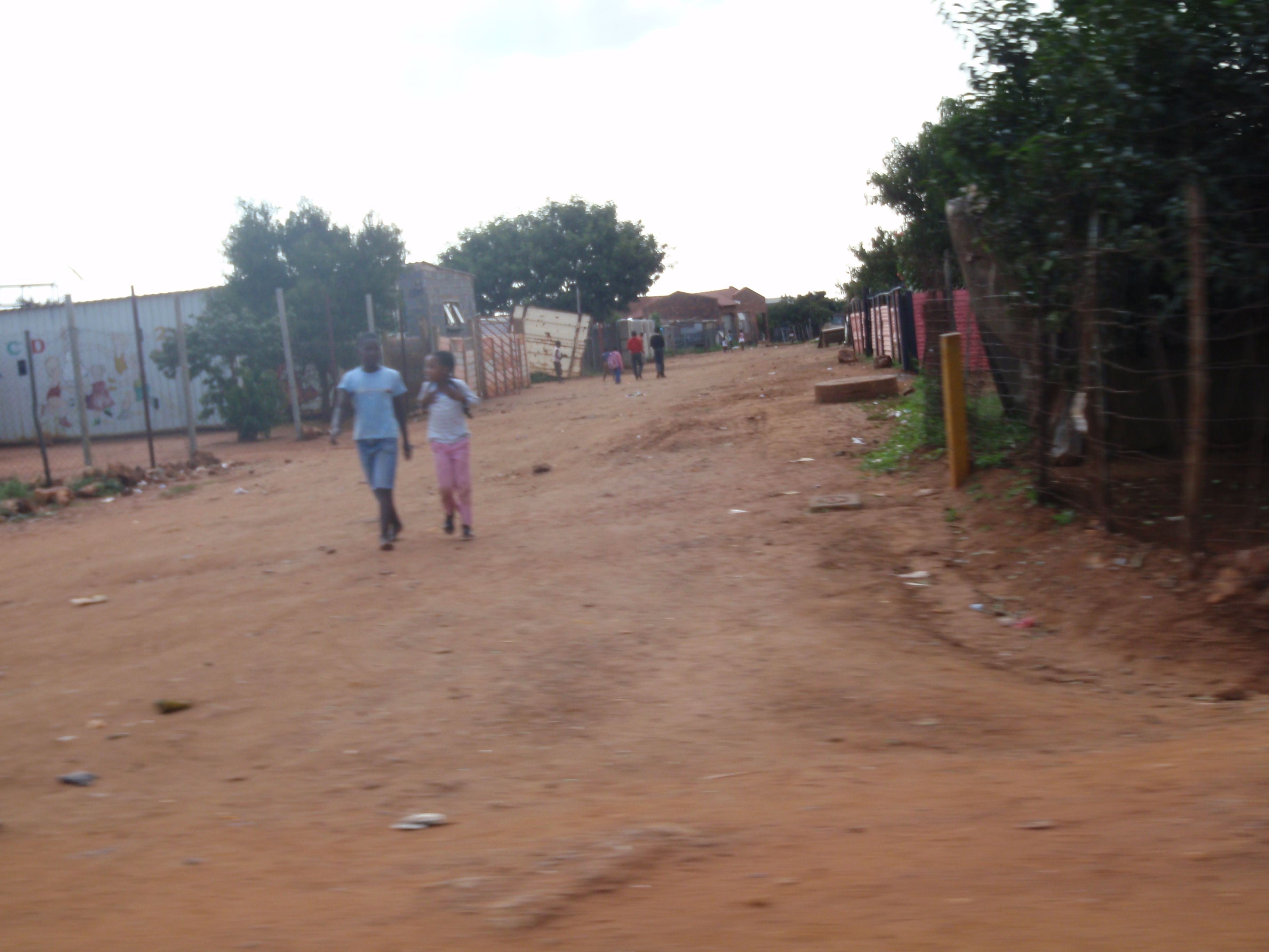 Tembisa, Gauteng, South Africa